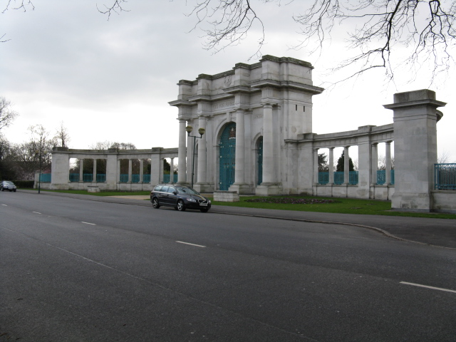 War Memorial Gateway, The Meadows, Nottingham